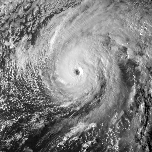 Hurricane Nicole near peak intensity on October 12, 2016.